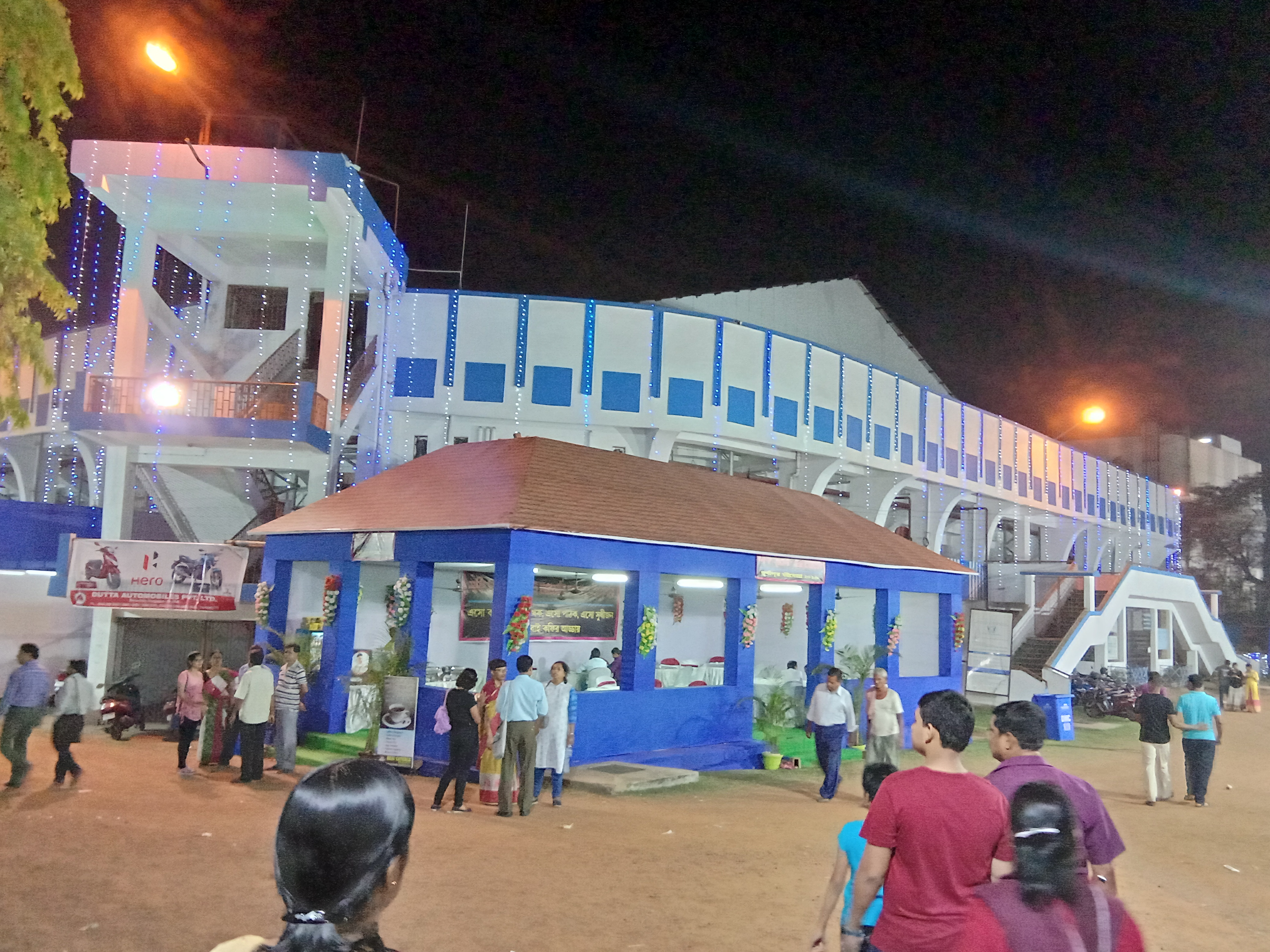 The Sidhu Kanhu Indoor Stadium is one of the most renowned and prestigious sporting arena in the emerging megacities of India.